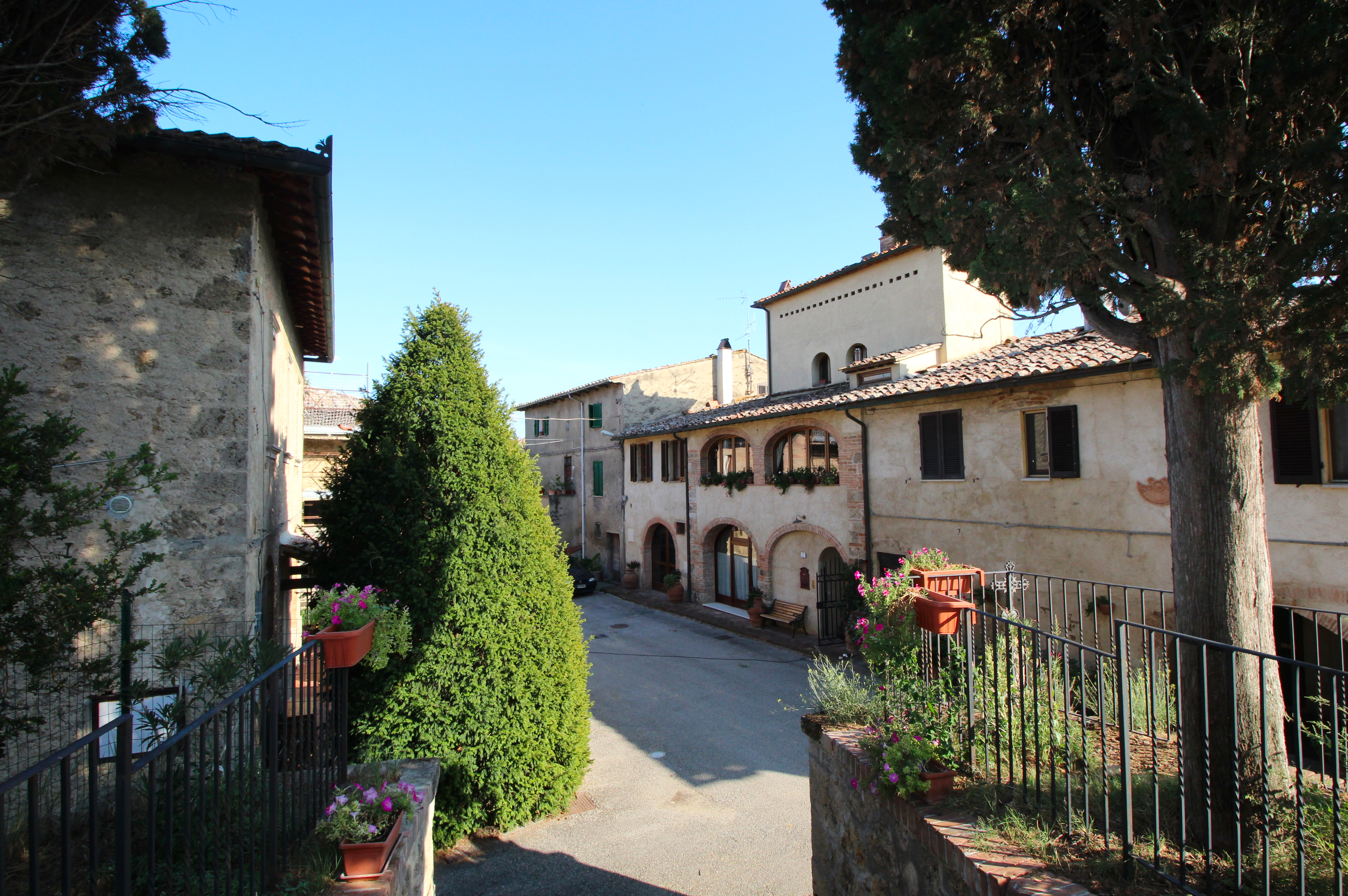 Castiglioni (Alto), village in the territory of Poggibonsi, Val d'Elsa, Province of Siena, Tuscany, Italy